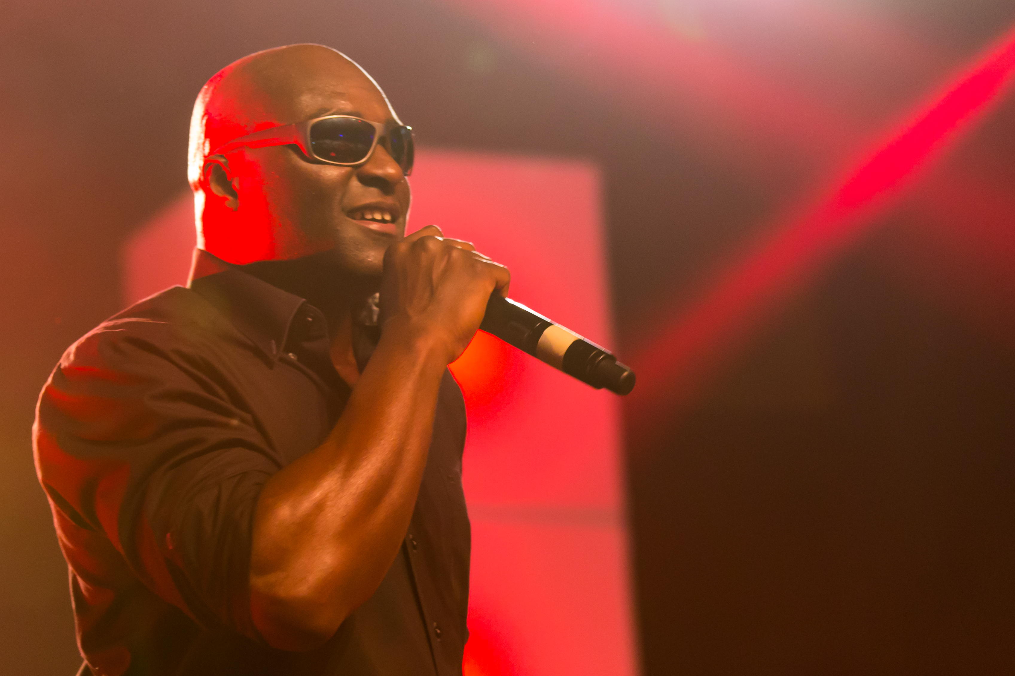 RPR1 90er Festival Maimarkthalle Mannheim Eloy, LayZee aka Mr. President, Nana, Right Said Fred, Snap! feat. Penny Ford during RPR1 90er Festival at Maimarkthalle, Mannheim, Baden-Württemberg, Germany on 2015-03-14, Photo: Sven Mandel